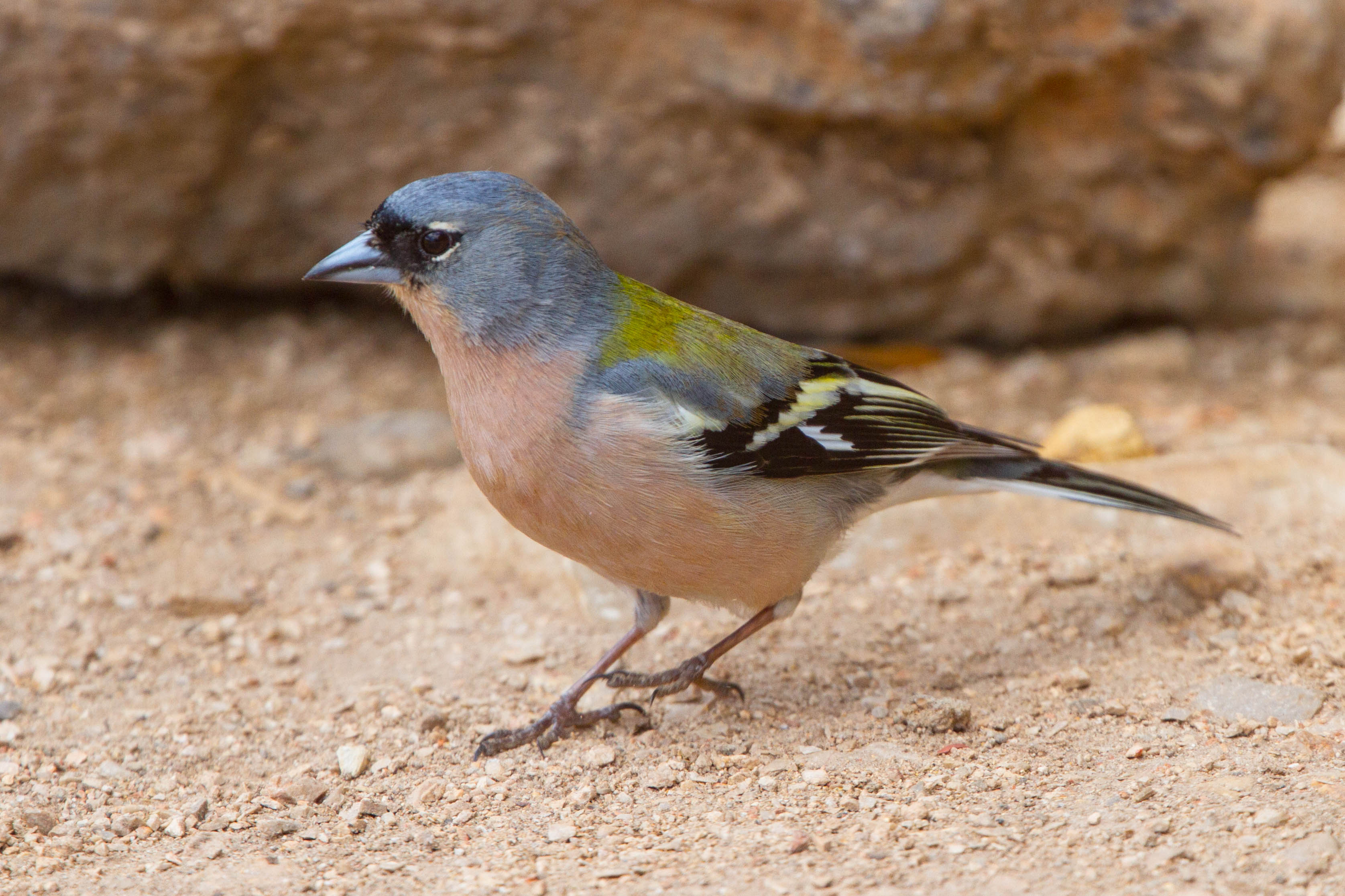 African Chaffinch Fringilla coelebs africana. Subspecies of the Common Chaffinch Fringilla coelebs. Specimen photographed in Morocco, 2013.